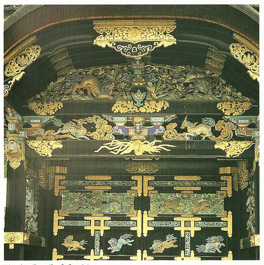 Detailed view of Side 2 of the Karamon Gate at the Hogon-ji Temple